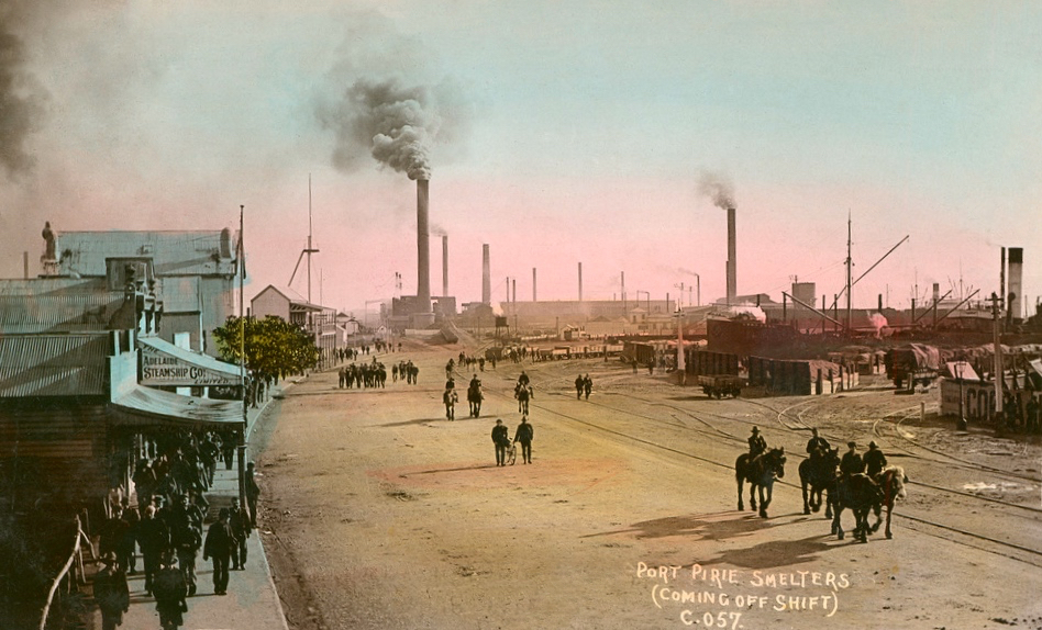 Smelter workers walking down Ellen Street, the main street of Port Pirie, at the end of their shift. The BHP smelter was built in 1889 alongside an existing one built by British Broken Hill Blocks mining company. Ahead (under the largest smokestack) are the railway tracks and marshalling yards of the smelters; fanning out to the right are many sidings for goods (mainly agricultural products), to be exported by ships, also visible at right.